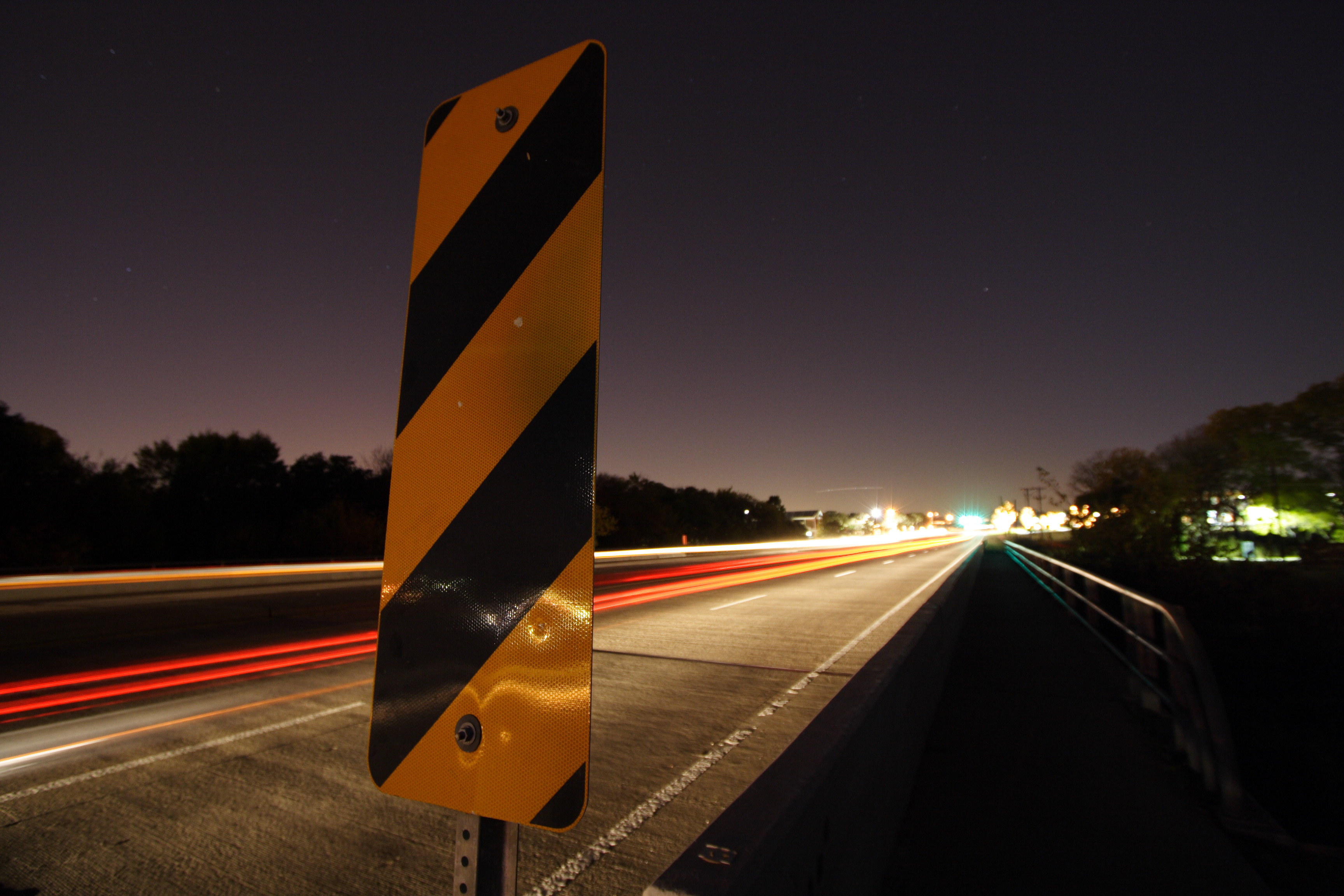 A demonstration of the effect of long exposure. Taken on FM 1171 in Flower Mound, Texas next to Market Square Park.